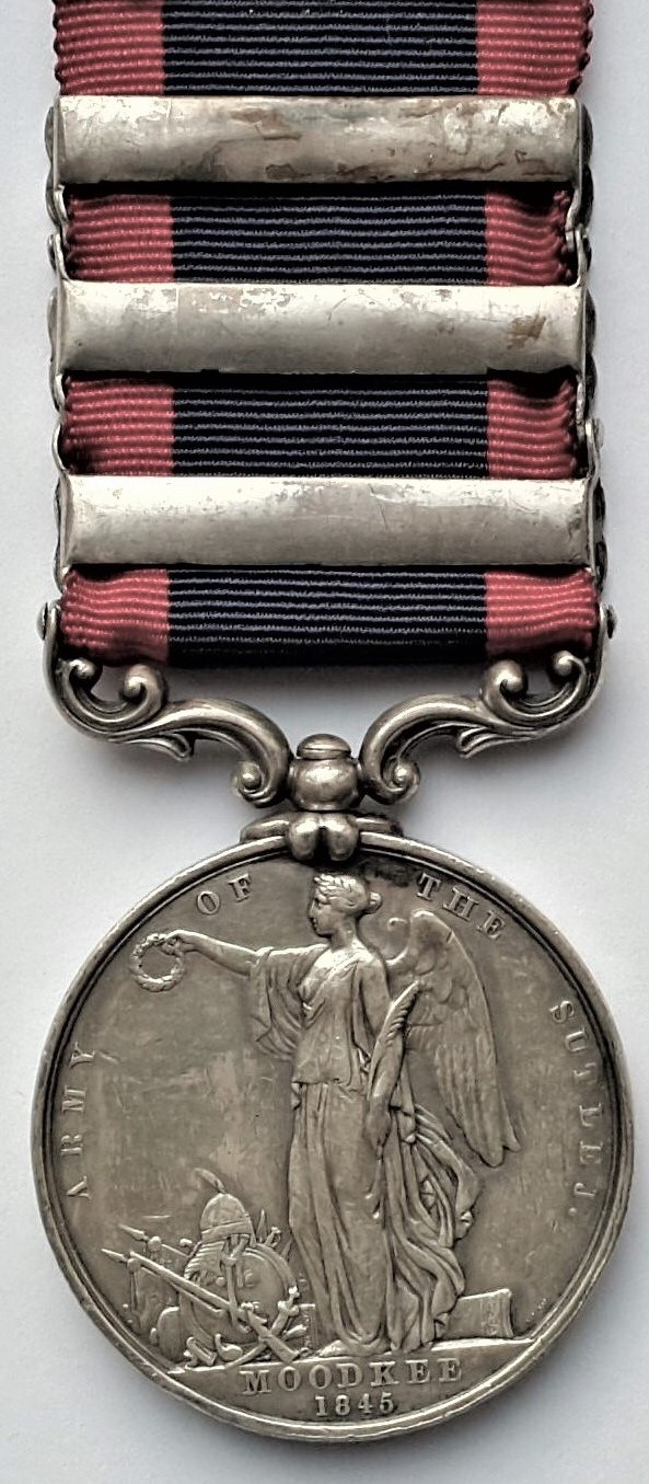 Sutlej Medal 1845-46, Reverse for Moodkee. Three clasps.